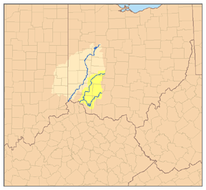 This is a map of the Great Miami River and Little Miami River watersheds. I, Pfly, made it, based on USGS data.